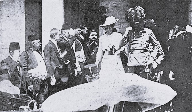 Austrian Crown Prince Franz Ferdinand and his wife Sophie on June 28 1914 in Sarajevo. They were assassinated five minutes later.